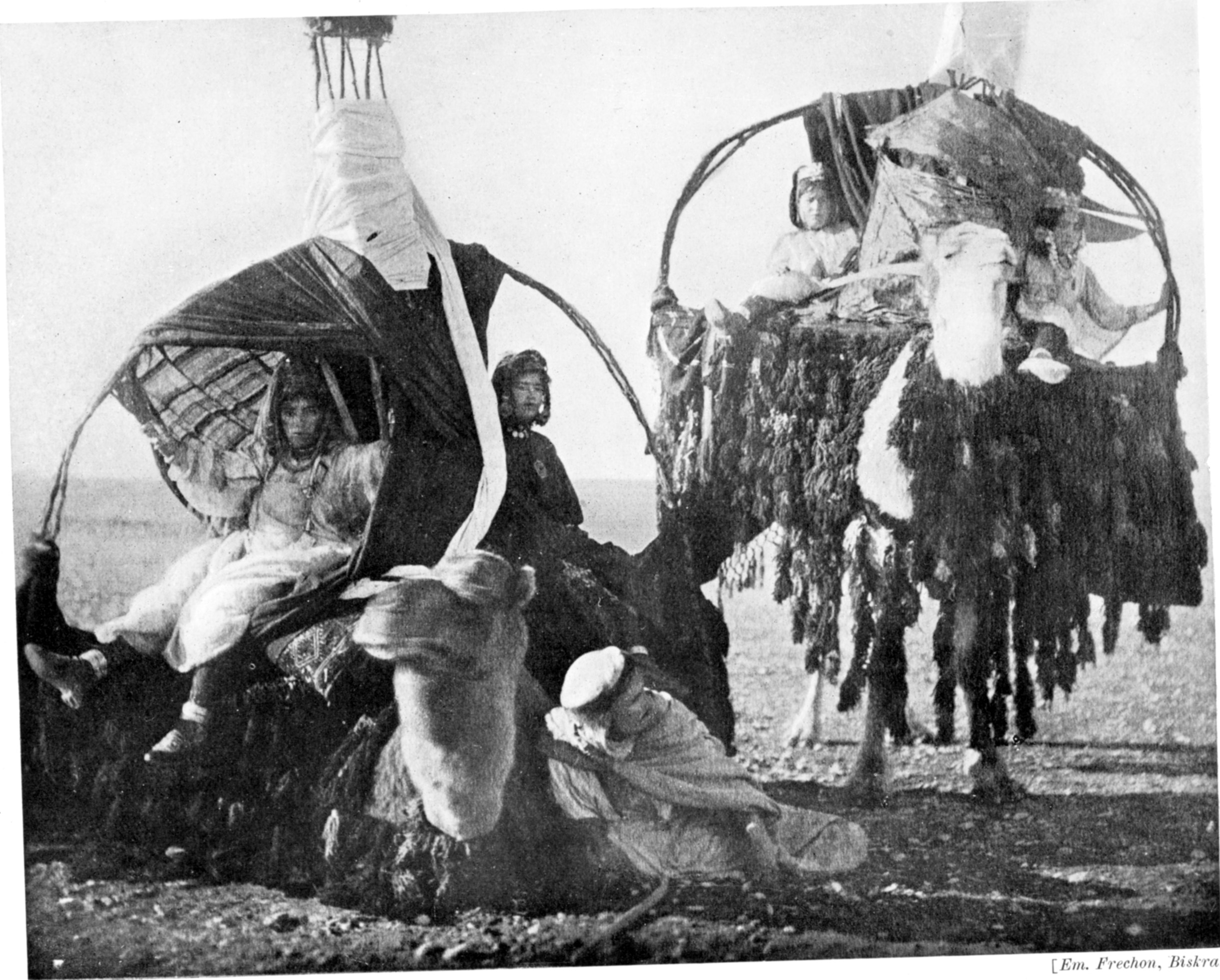 Algerian women on a journey.The women must always be shielded from the gaze of strange men, so travelling is not pleasant for them. In the interior they travel on camels, one lady on each side, in a cage which is hot and uncomfortable.